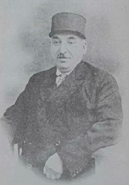 Adib al-Saltanah, Iranian politician and author